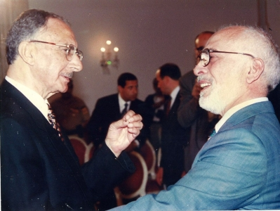 Thouqan greeting King Hussein